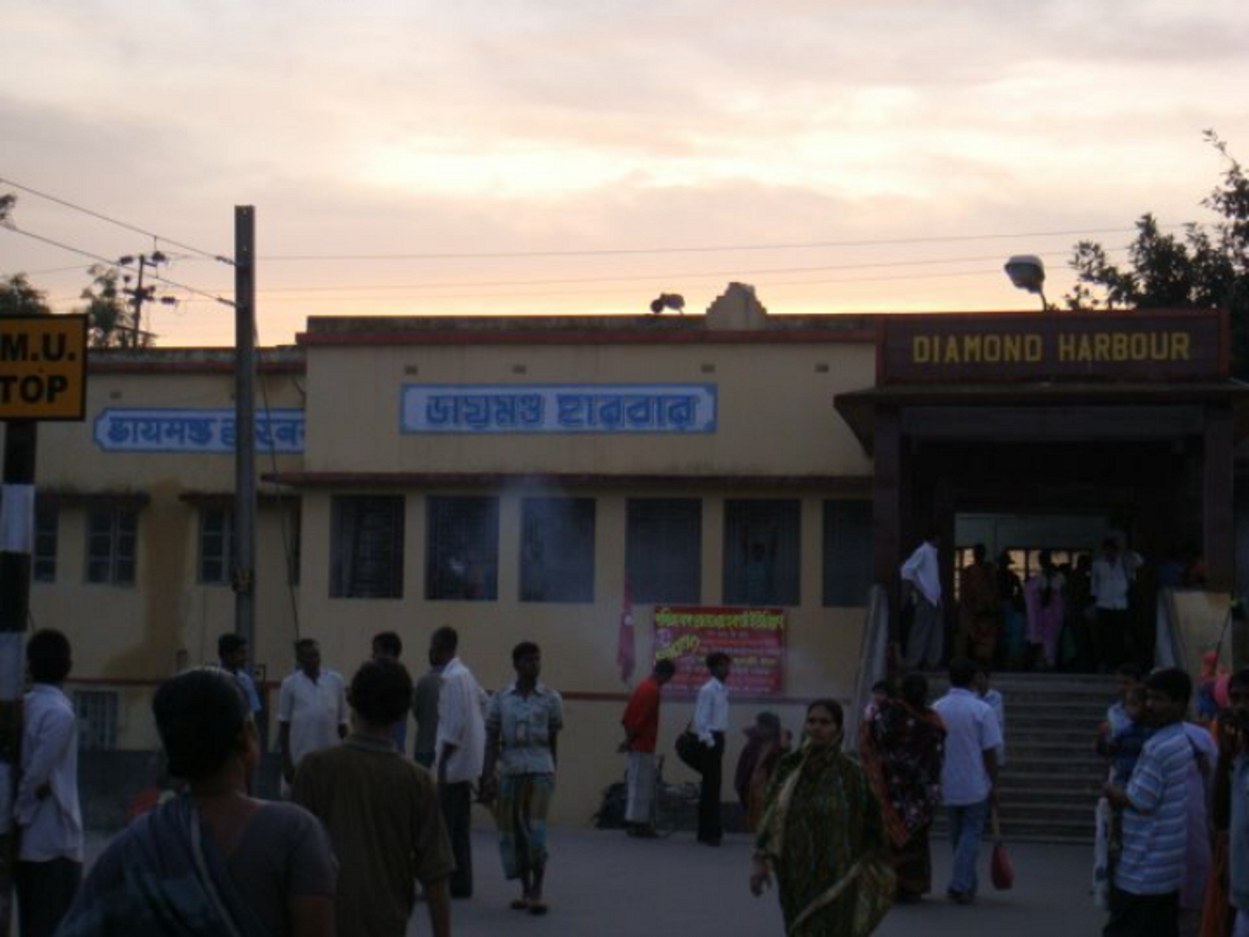 Diamond Harbour railway station